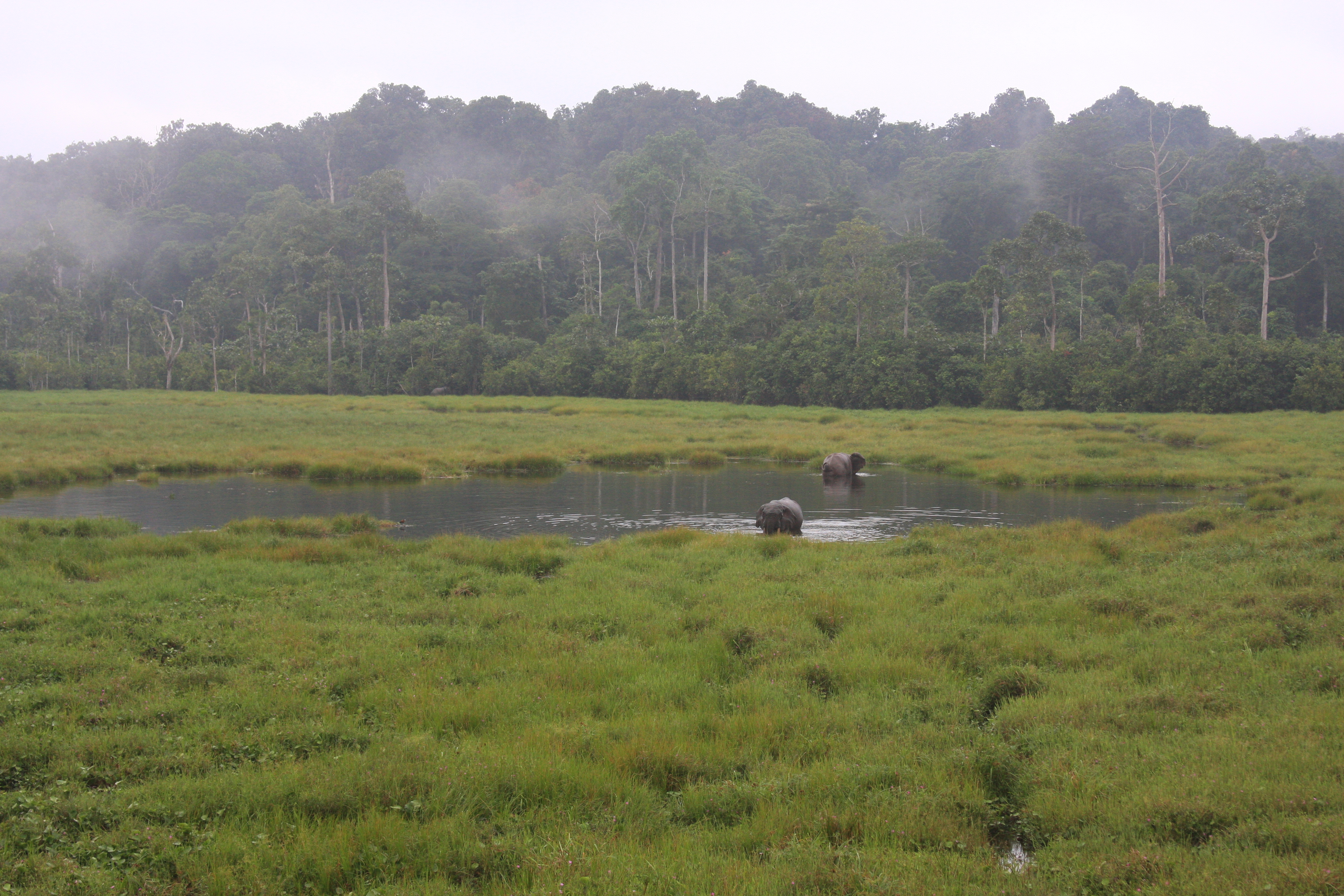 Forest elephants socialize and get minerals at clearings in the rainforest like Mbeli Bai. Credit: Michelle Gadd/USFWS